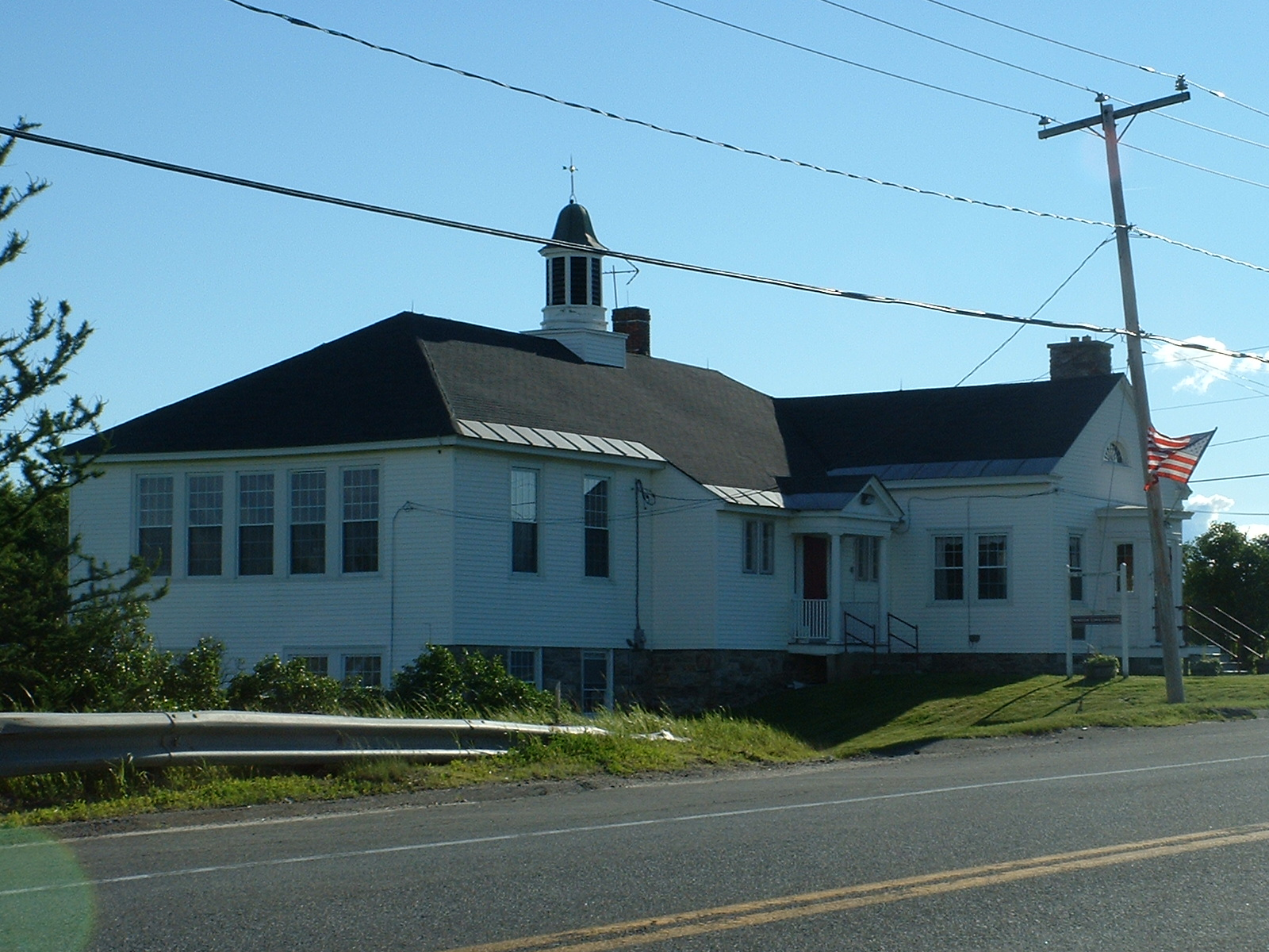 Windsor Town Offices and Free Public Library, Windsor, Massachusetts Windsor Town Offices and Free Public Library, Berkshire Trail (Rte. 9), Windsor, MA